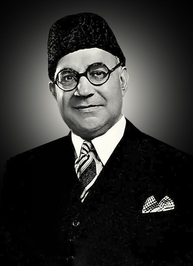 Liaquat Ali Khan, first Prime Minister of Pakistan in 1945 wearing Jinnah Cap.